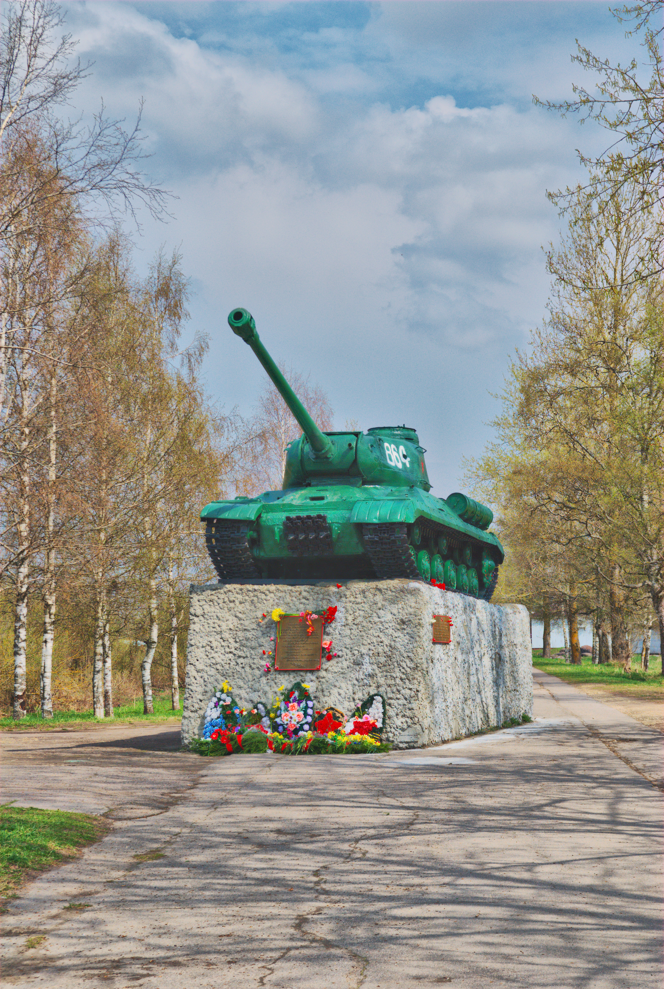 Dedicated to 65th Anniversary of the Great Victory. The Monument on the place of Heroic Act of Zinoviy's Kolobanov's tank crew. Leningrad. 1941. Посвящается 65-летию Великой Победы. Монумент на месте подвига танкового экипажа Зиновия Колобанова.